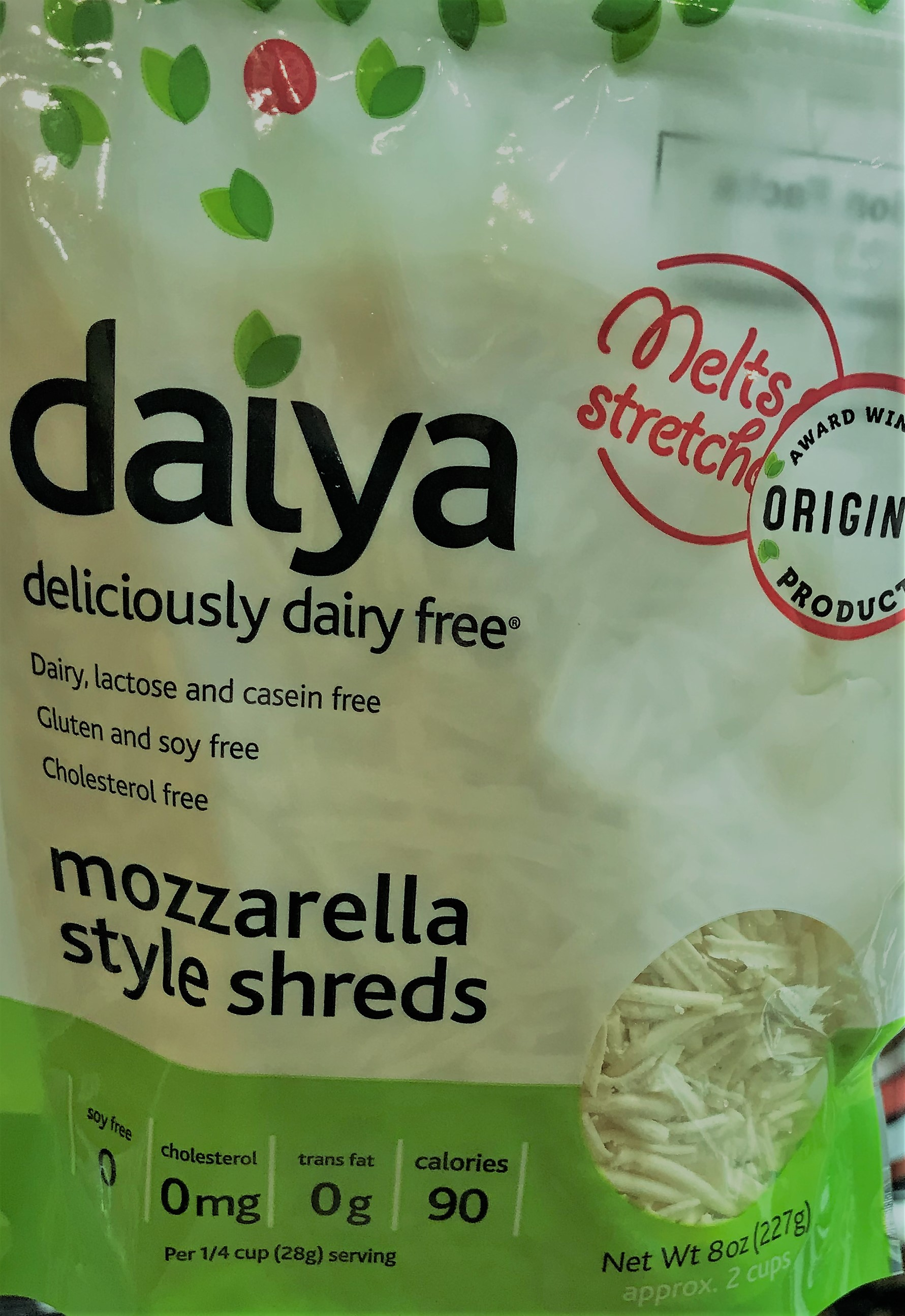 mainstream vegan cheese sold in a multitude of stores that stretches and melts.